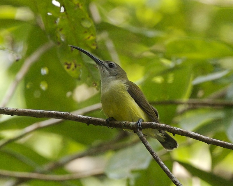 Little Spiderhunter (Arachnothera longirostra) ssp Arachnothera longirostra longirostra Location: Thattekad, Kerala, India Date: 8th. October 2007 Indonesian: Burung jantung kecil Malay: Kelicap Jantung Kecil Thai: นกปลีกล้วยเล็ก _Q0S9998